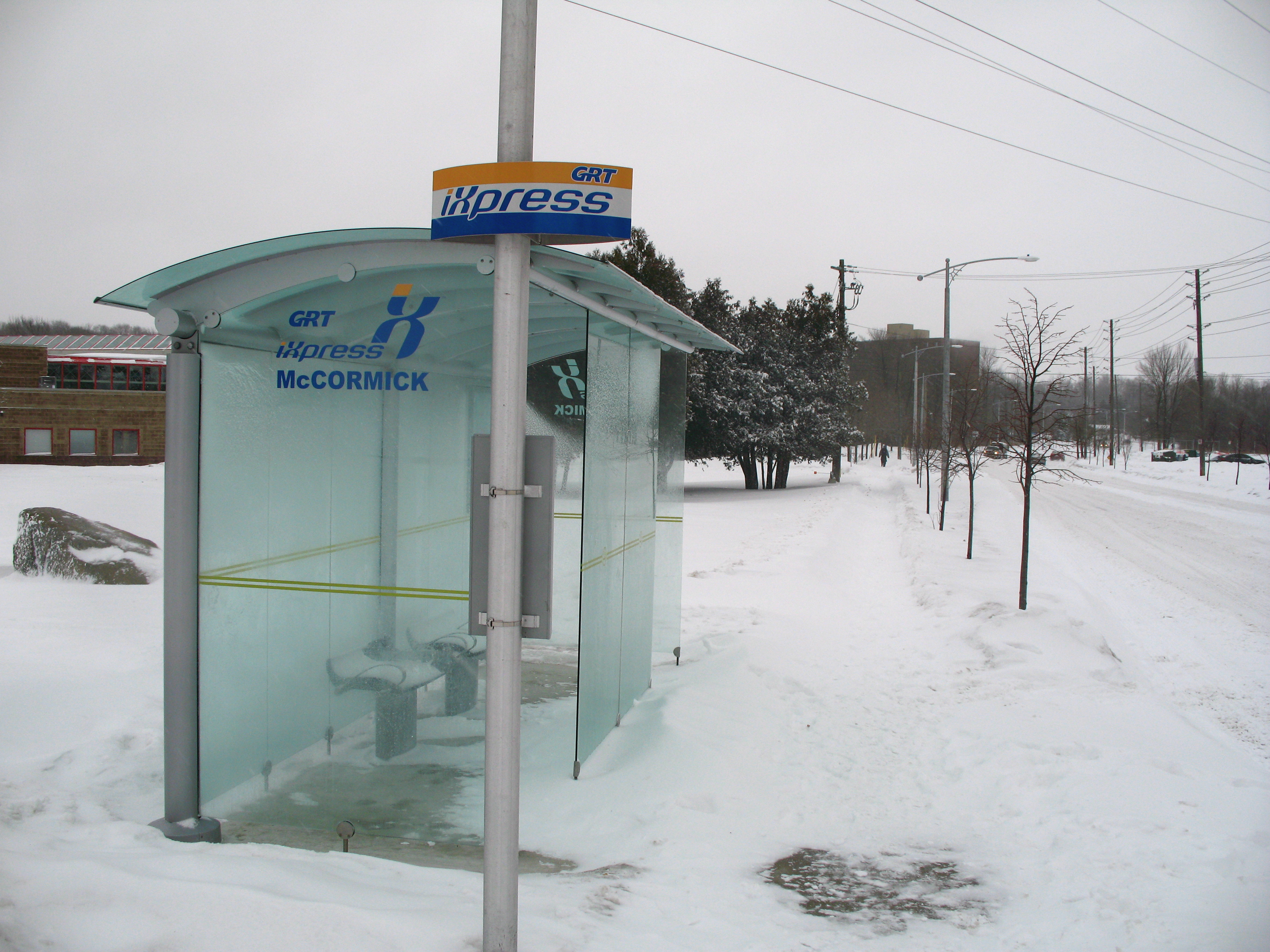 Wikipedia:iXpress bus stop (McCormick, direction Conestoga Mall) in Waterloo, Ontario, Canada